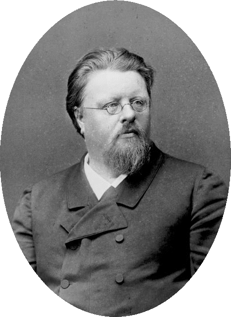 Wilhelm Jahn ( 24 November 1835 – 21 April 1900) was an Austro-Hungarian conductor. He served as director of the Vienna Court Opera from 1880 to 1897 and principal conductor of the Vienna Philharmonic Orchestra from 1882 to 1883. He gave the partial premiere of Bruckner's Symphony No. 6, performing the middle two movements in 1883. (This summary was created using Commons SumItUp)